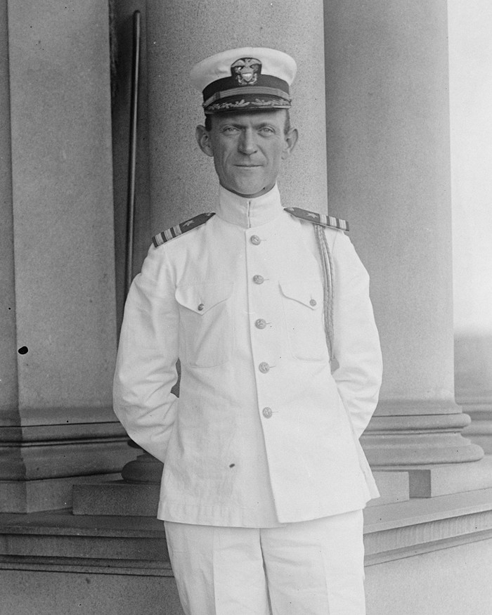 Photo of rear admiral of the US navy was originally published by as described at the ( however, the published file was not available on this domain. It may have been deleted or does not exist.